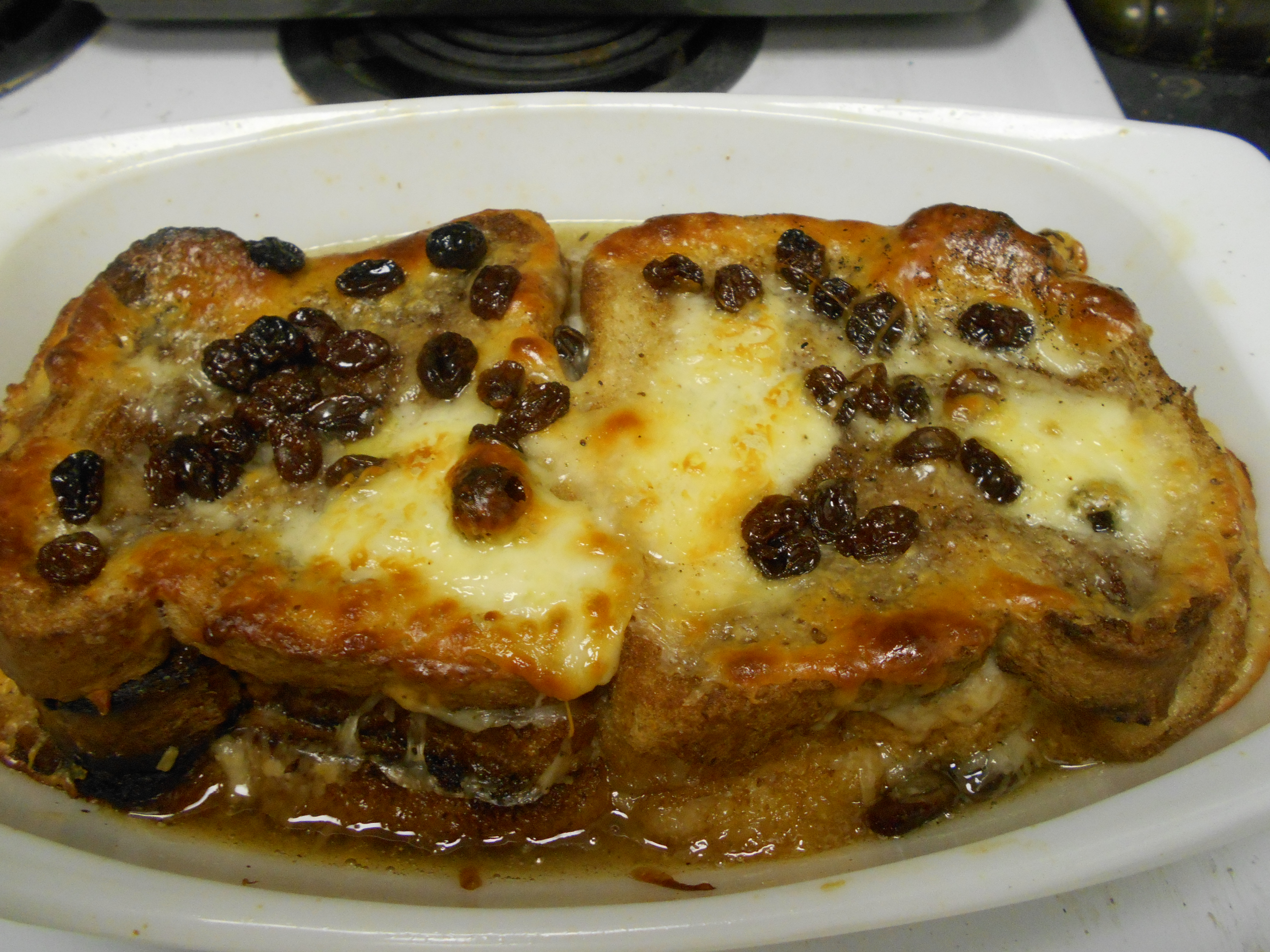 From "The Dead Celebrity Cookbook".